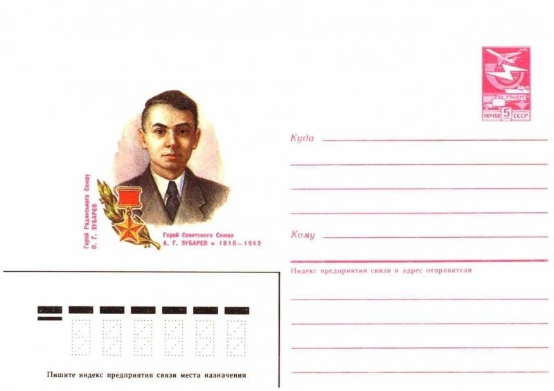 Envelope featuring schoolteacher and Soviet partisan Oleksandr Hordiyovych Zubaryev.